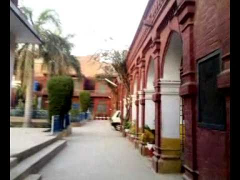 Govt High School Daska